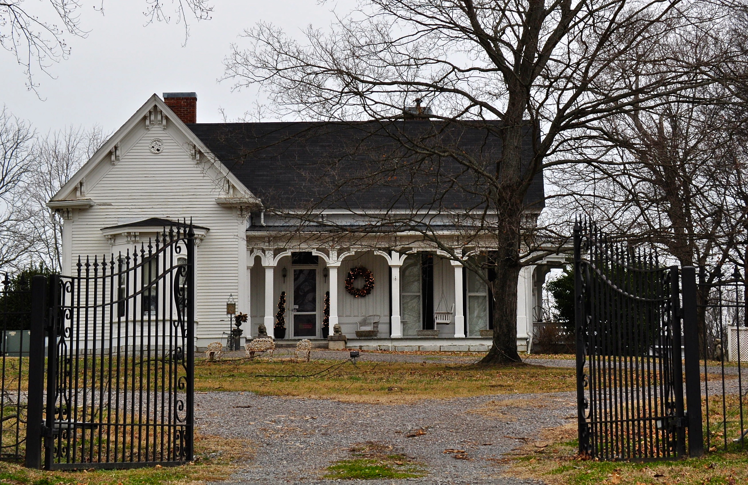 Located near College Grove, Tennessee.